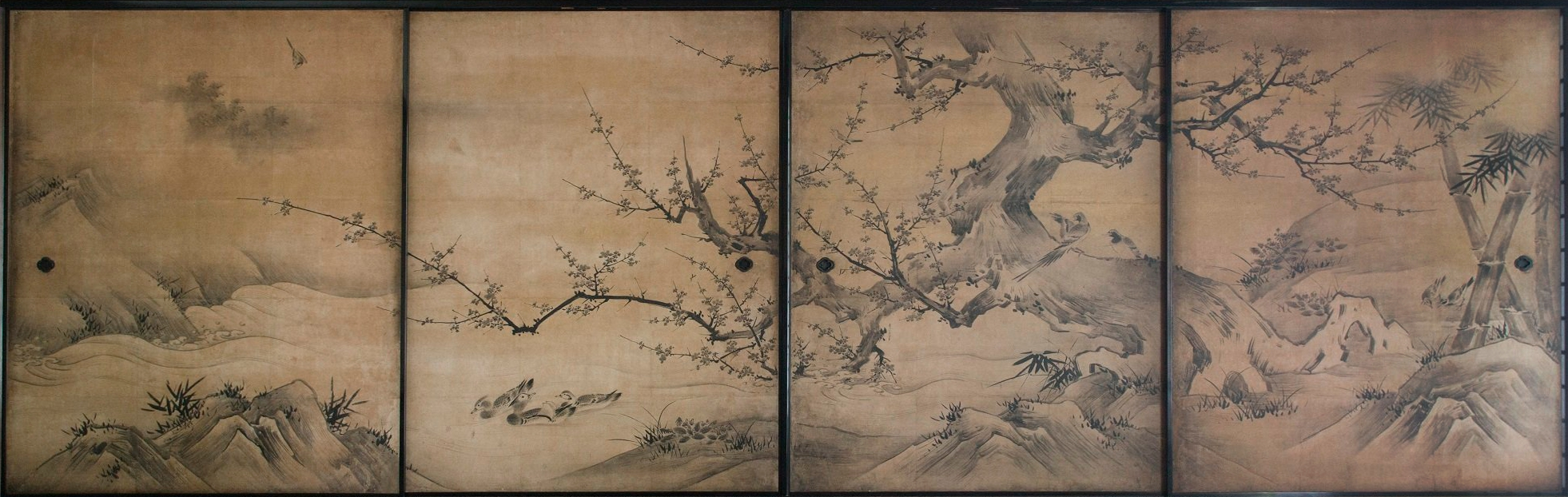 Birds and flowers of the four seasons (紙本墨画花鳥図, shihon bokuga kachōzu), part of the Paintings on room partitions in the abbot's quarters (hōjō) (方丈障壁画, hōjō shōhekiga) of Jukō-in (聚光院) of Daitoku-ji (大徳寺), Kyoto, Japan. Ink on paper. This picture shows four of 16 panels on fusuma (sliding doors) in the in the ritual room (室中). The paintings have been designated as National Treasure of Japan in the category paintings.